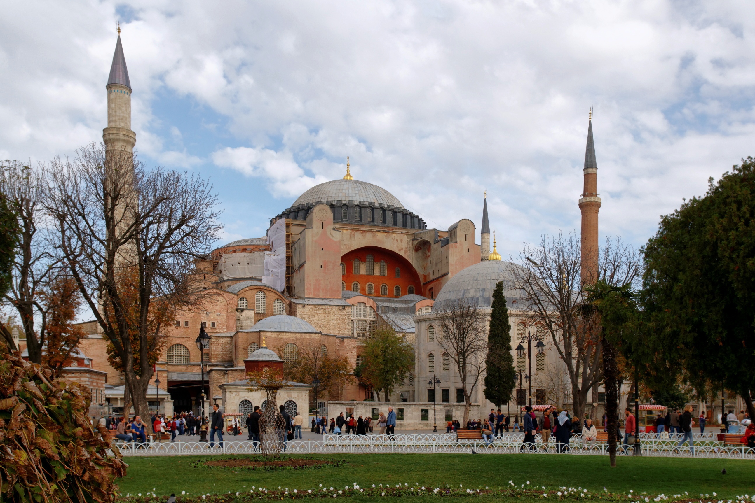 Istanbul. Hagia Sophia